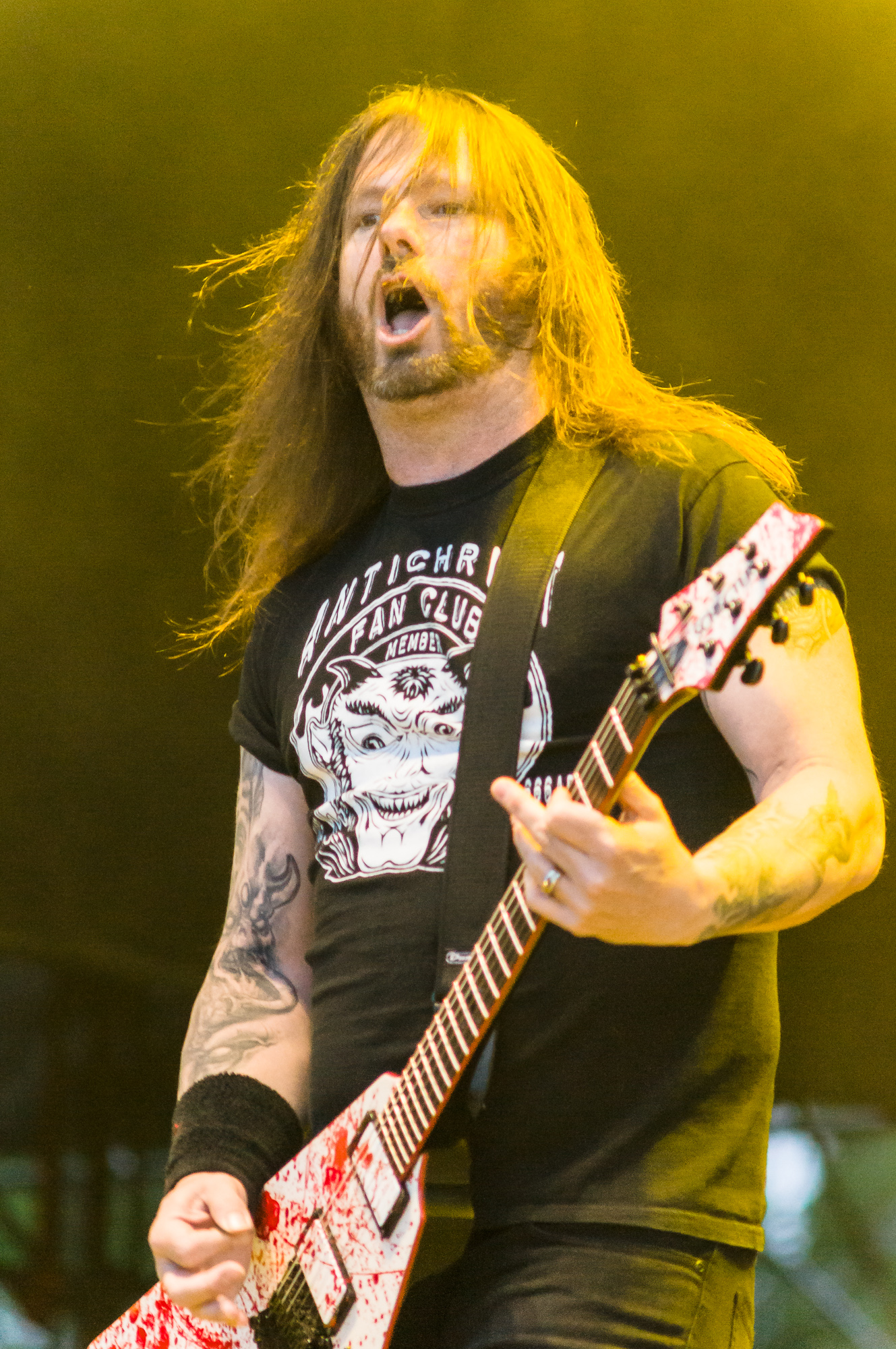 Gary Holt, a guest guitarist of Slayer at Ursynalia 2012 Festival, Warsaw, Poland.